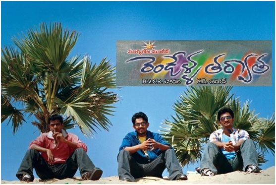 This is a Telugu film released in 2005 . Rendella Tharuvatha otherwise called After Two Years.